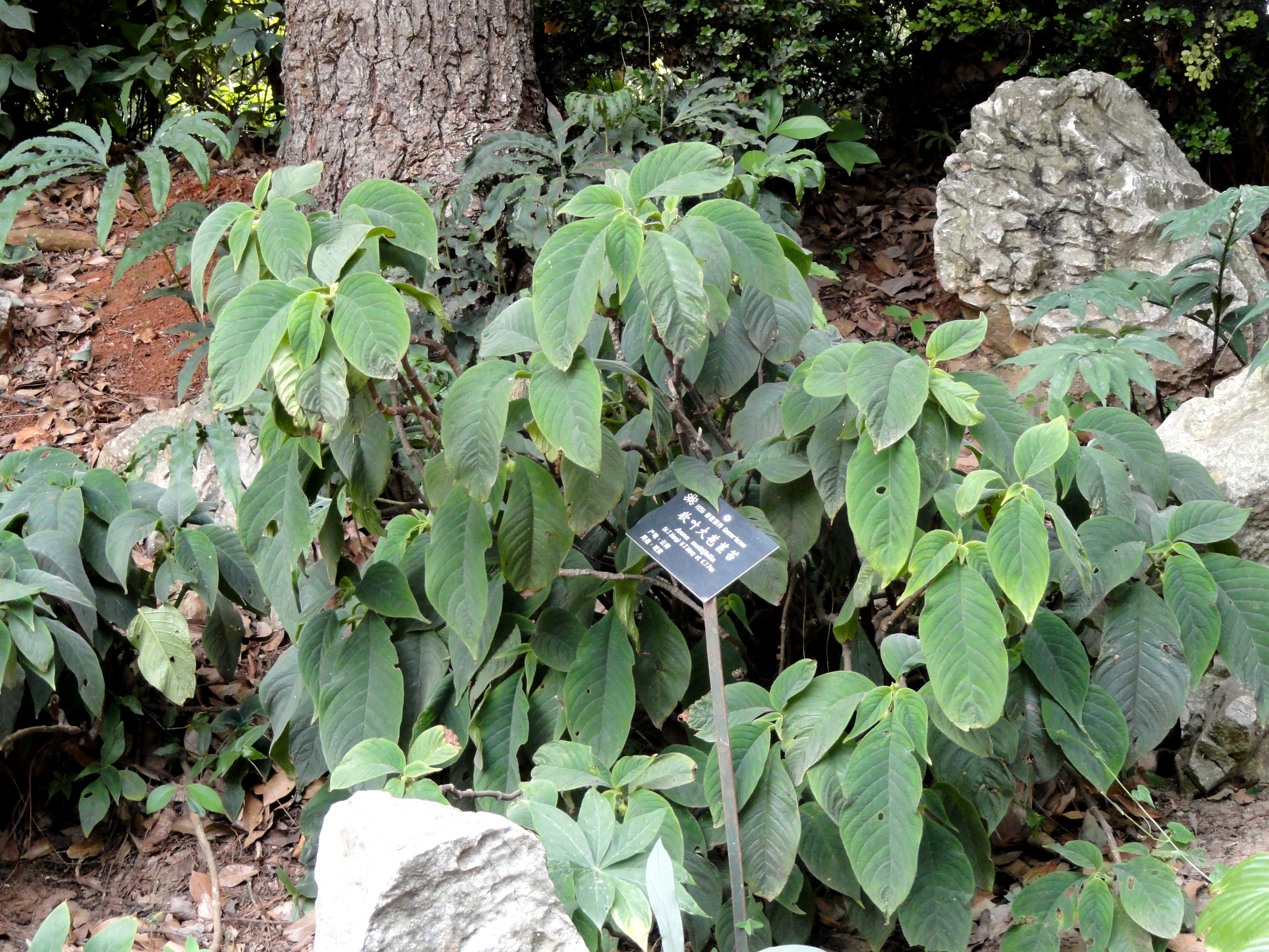 Anna mollifolia in the Kunming Botanical Garden, Kunming, Yunnan, China.